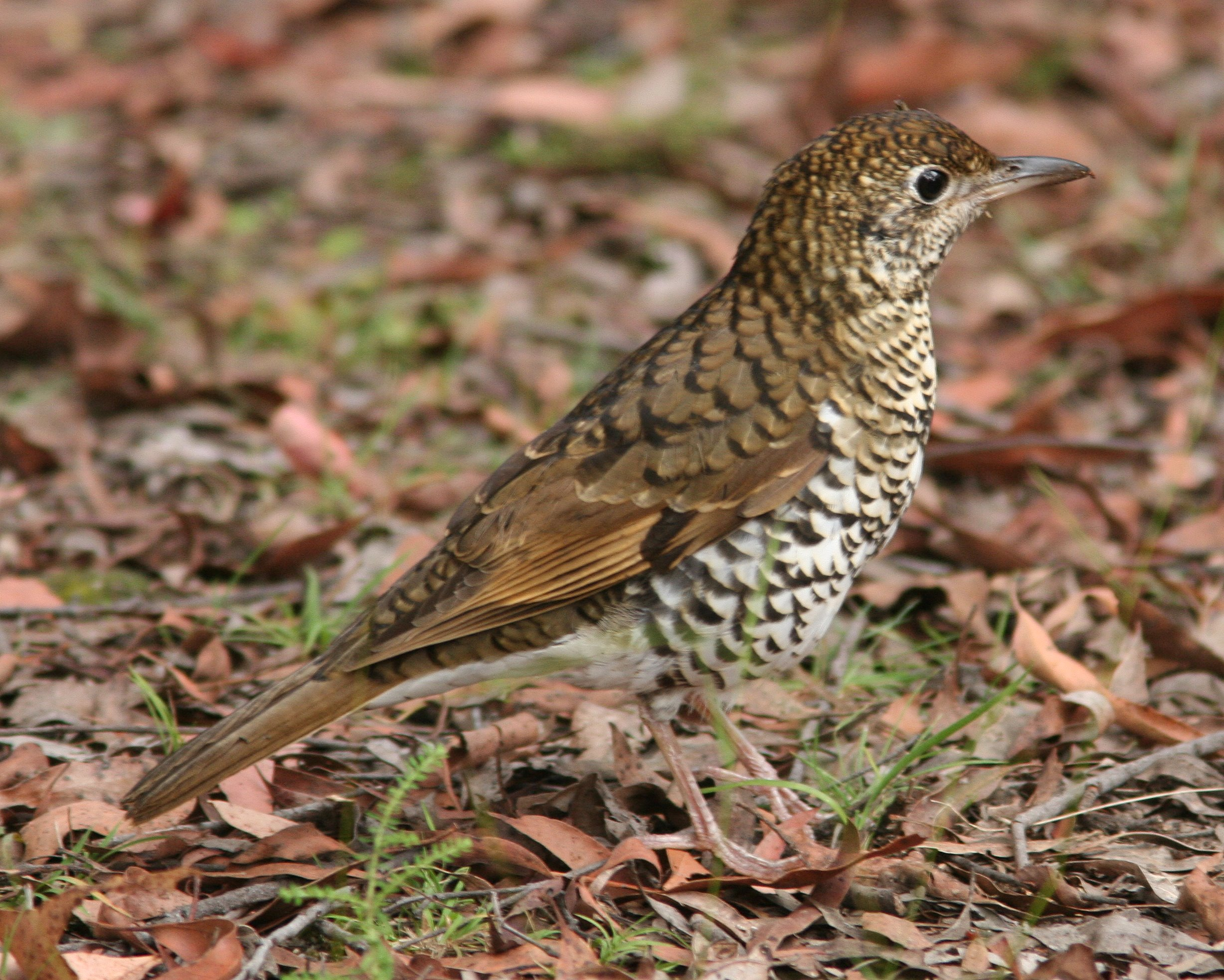 Bassian Thrush, Zoothera lunulata